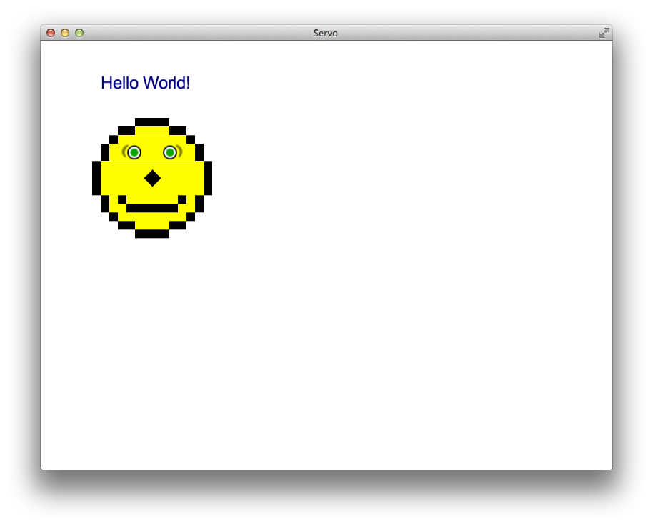 Mozilla Servo showing ACID2.